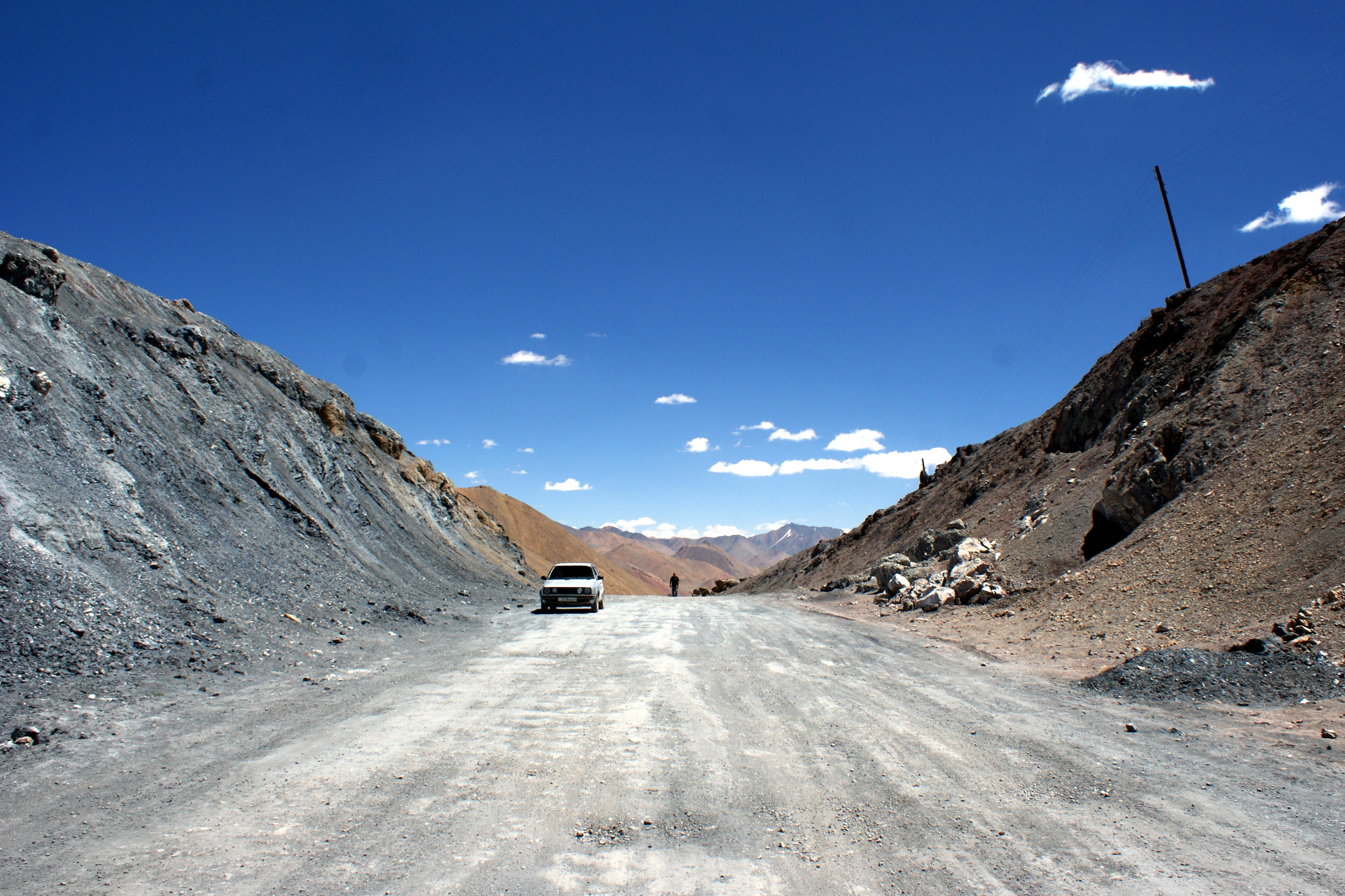 Ak Batail montain pass (view towards Murghab)